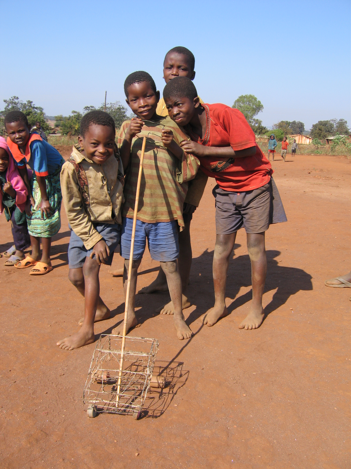 Scenes from Mgona, one of the poorest communities in Lilongwe, Malawi. AIDS-orphans play with a selfmade car. About 38,000 people live in Mgona, 20,000 of them are orphans.